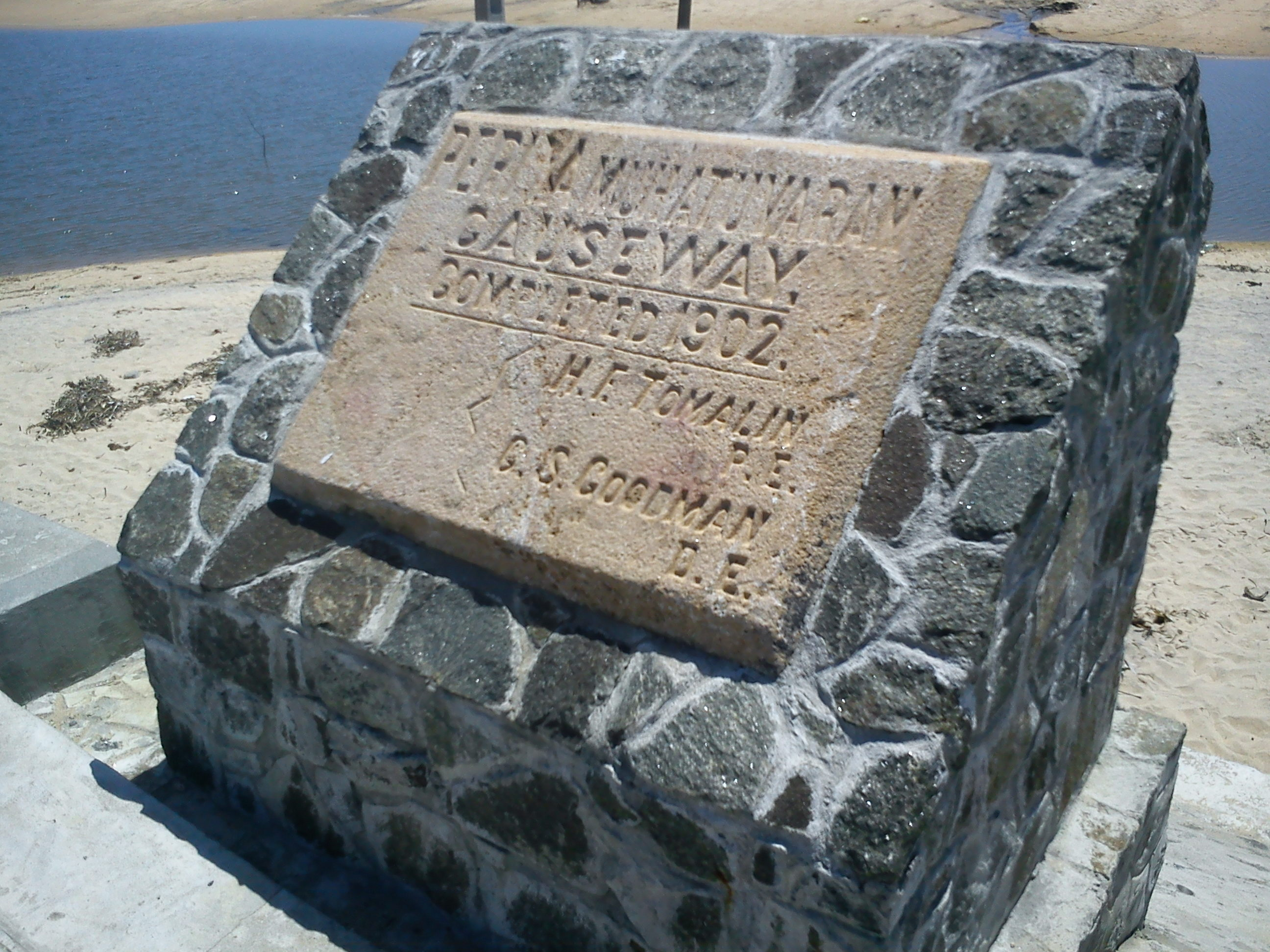 The inscription in the Thambiluvil estuary bridge